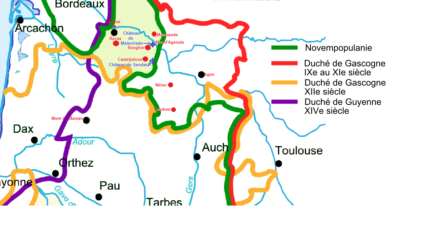 Mapa de la Gascogne norte